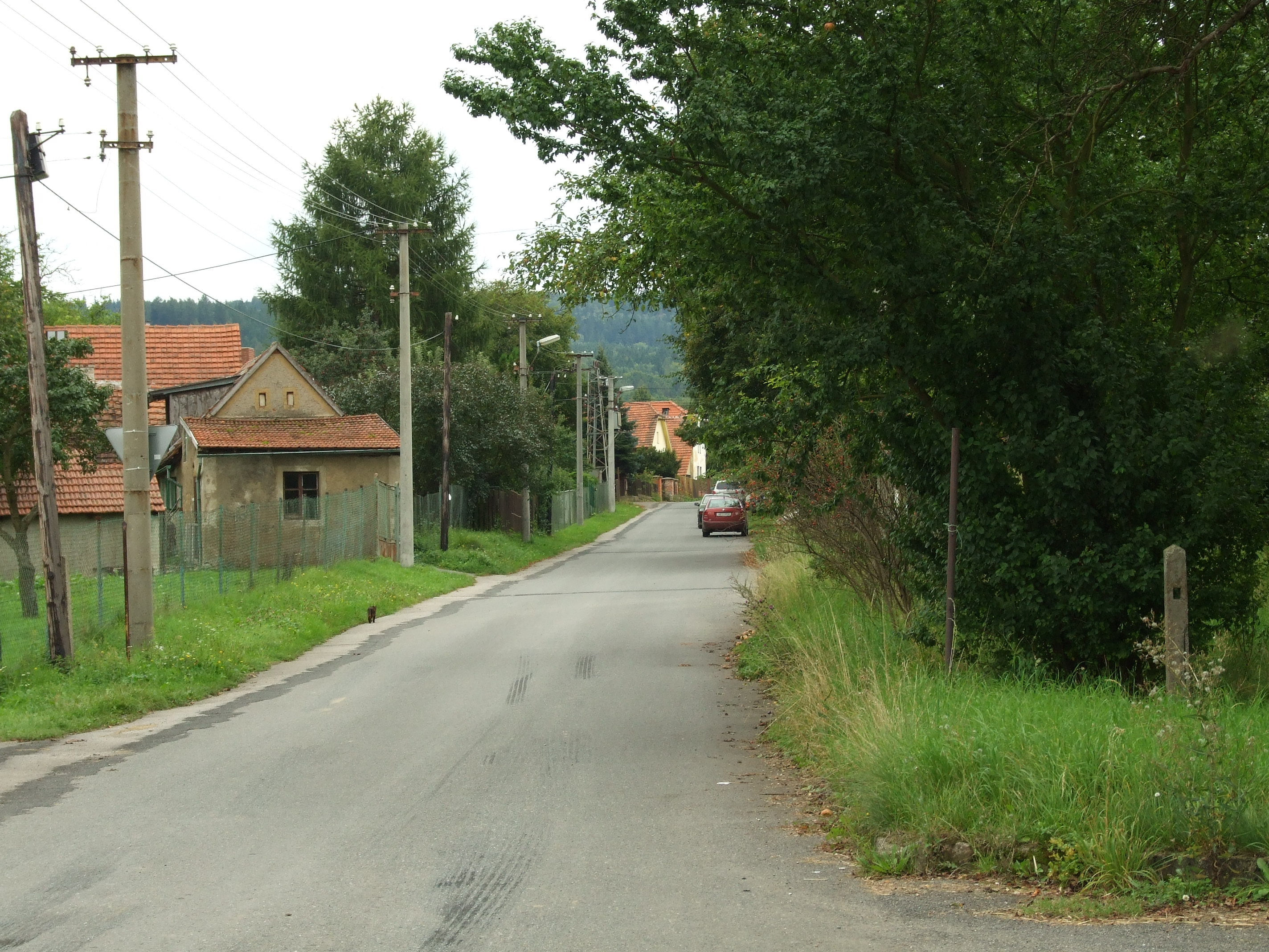 A road in the village of Drahlovice (part of the town of Skuhrov; Beroun District), Central Bohemian Region, CZ